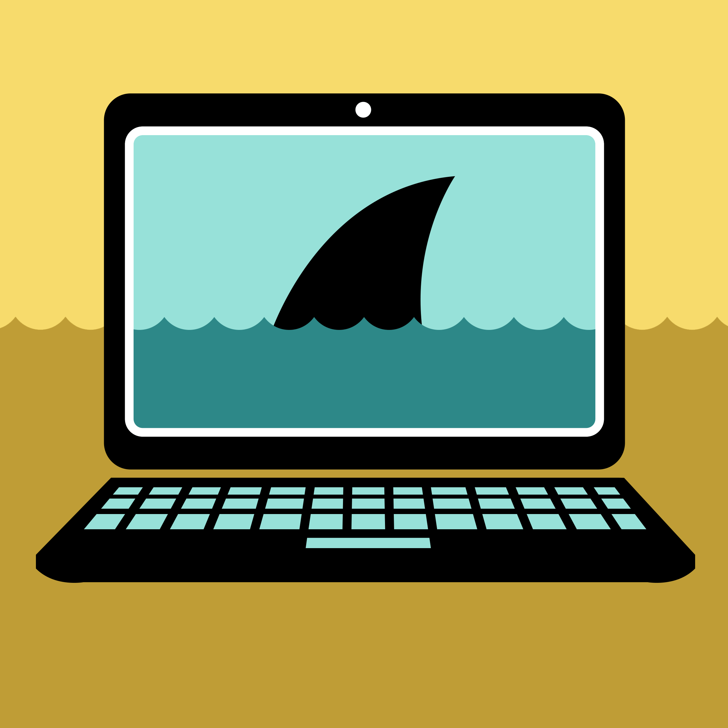 Electronic Frontier Foundation graphic created by EFF Senior Designer Hugh D'Andrade.